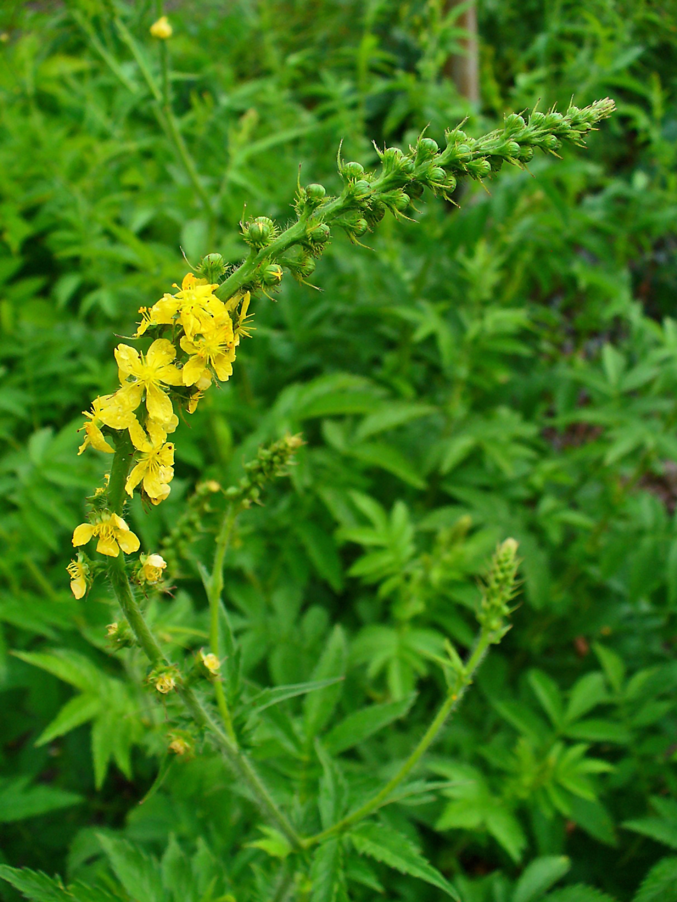 Agrimonia procera, Rosaceae, Fragrant Agrimony, inflorescence; Botanical Garden KIT, Karlsruhe, Germany.